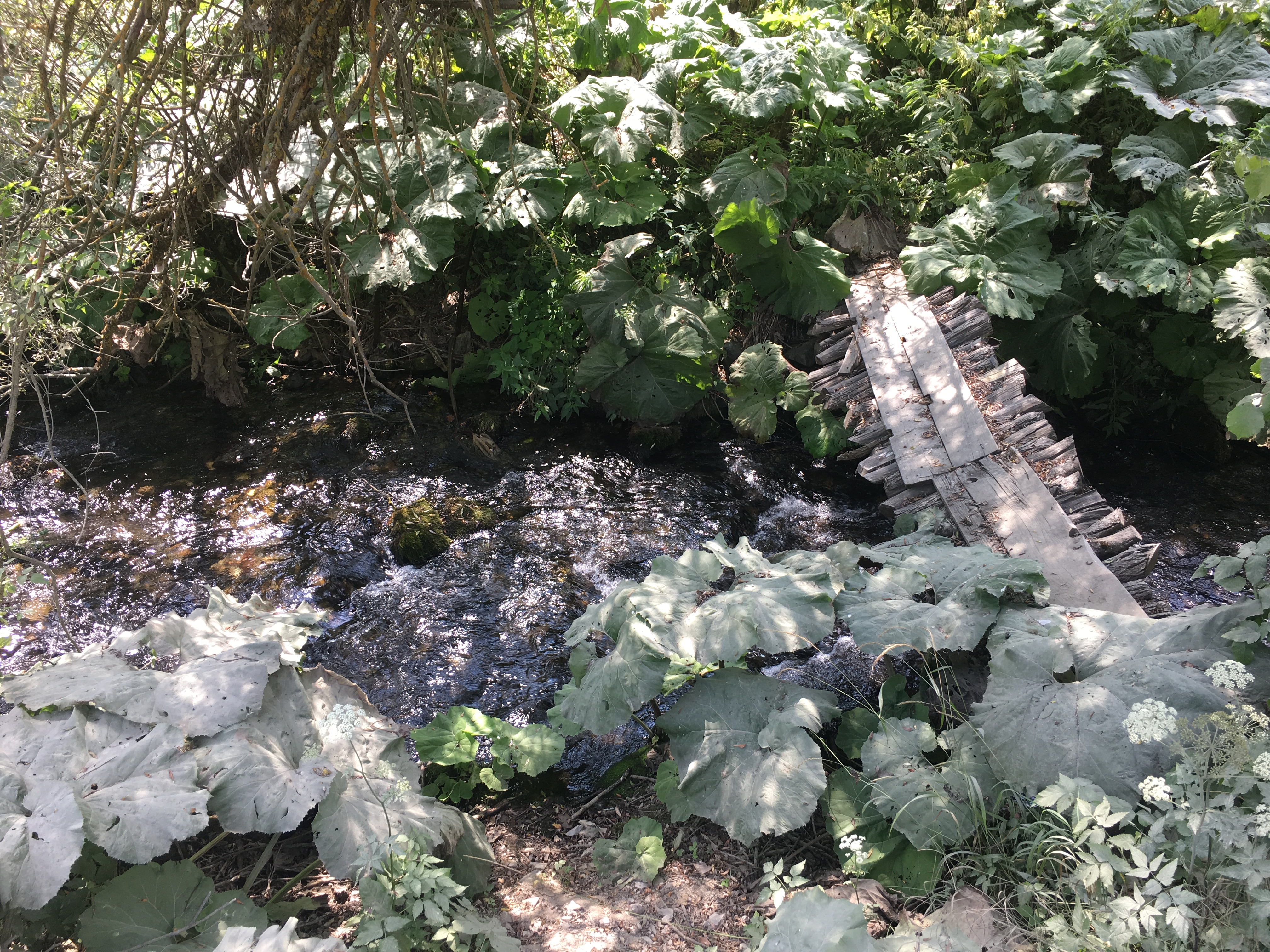 Mokreš River near the village of Rečica